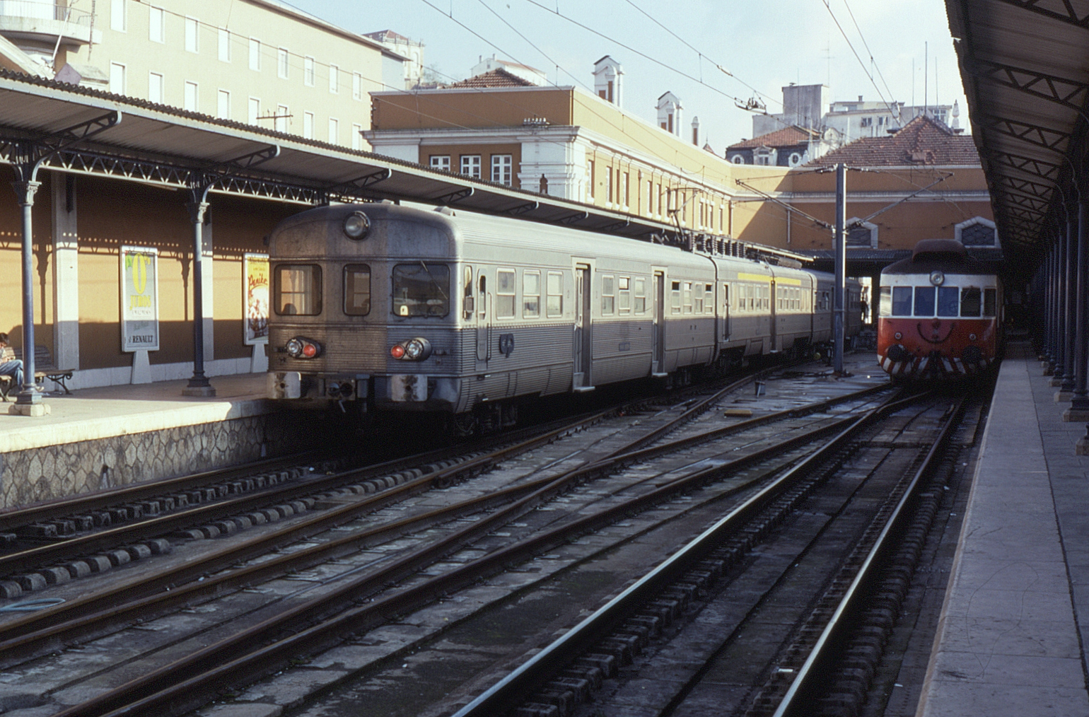 Seen at Coimbra A station on 28 November 1990 is an unidentified 3-car SOREFAME built EMU. To the right ALLAN built class 0301 diesel railcar dating back to 1954.